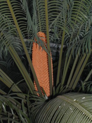 Cycad female cone